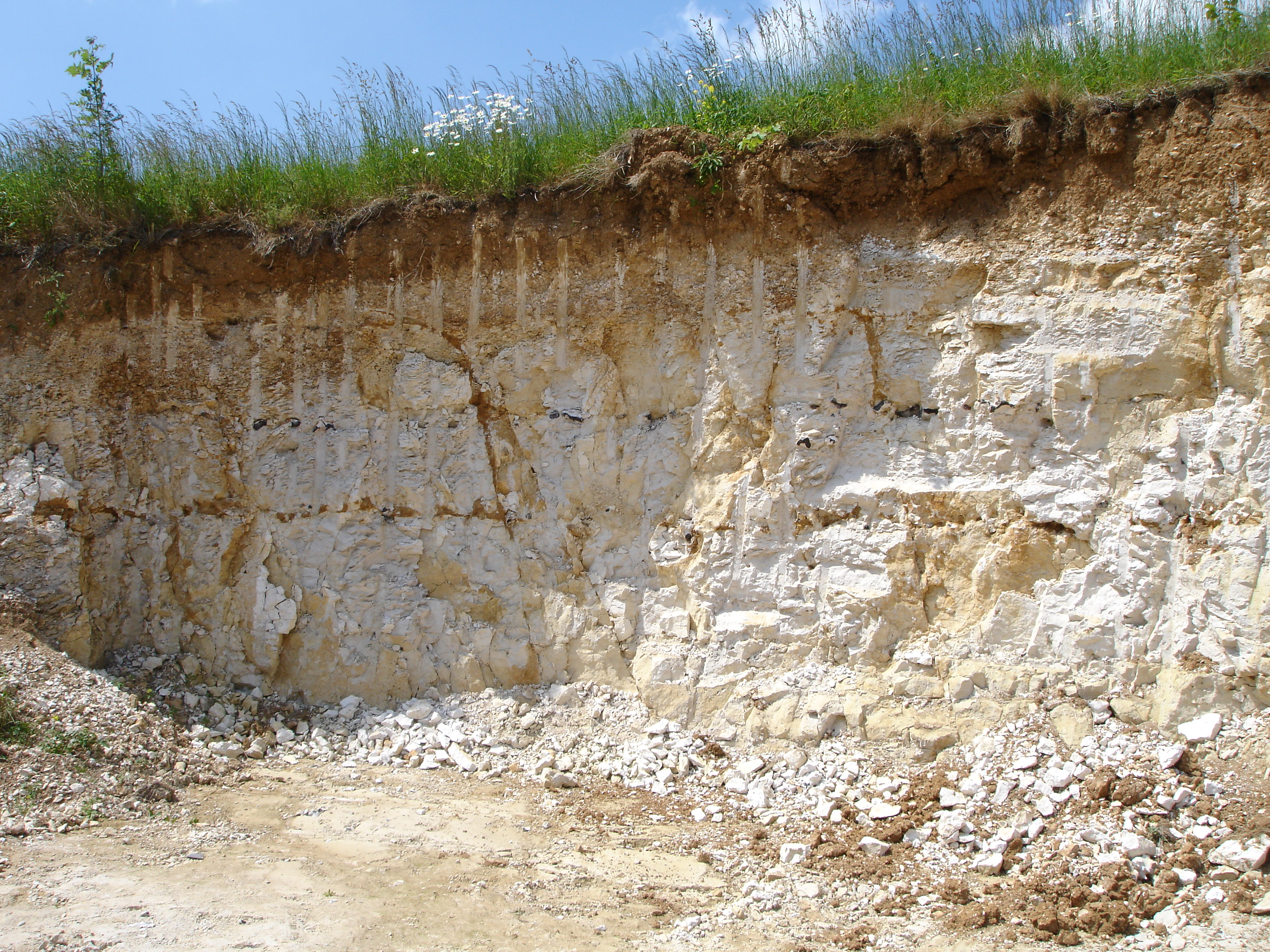 Coniacian chalk with fine layers of flint and covered by loess horizons